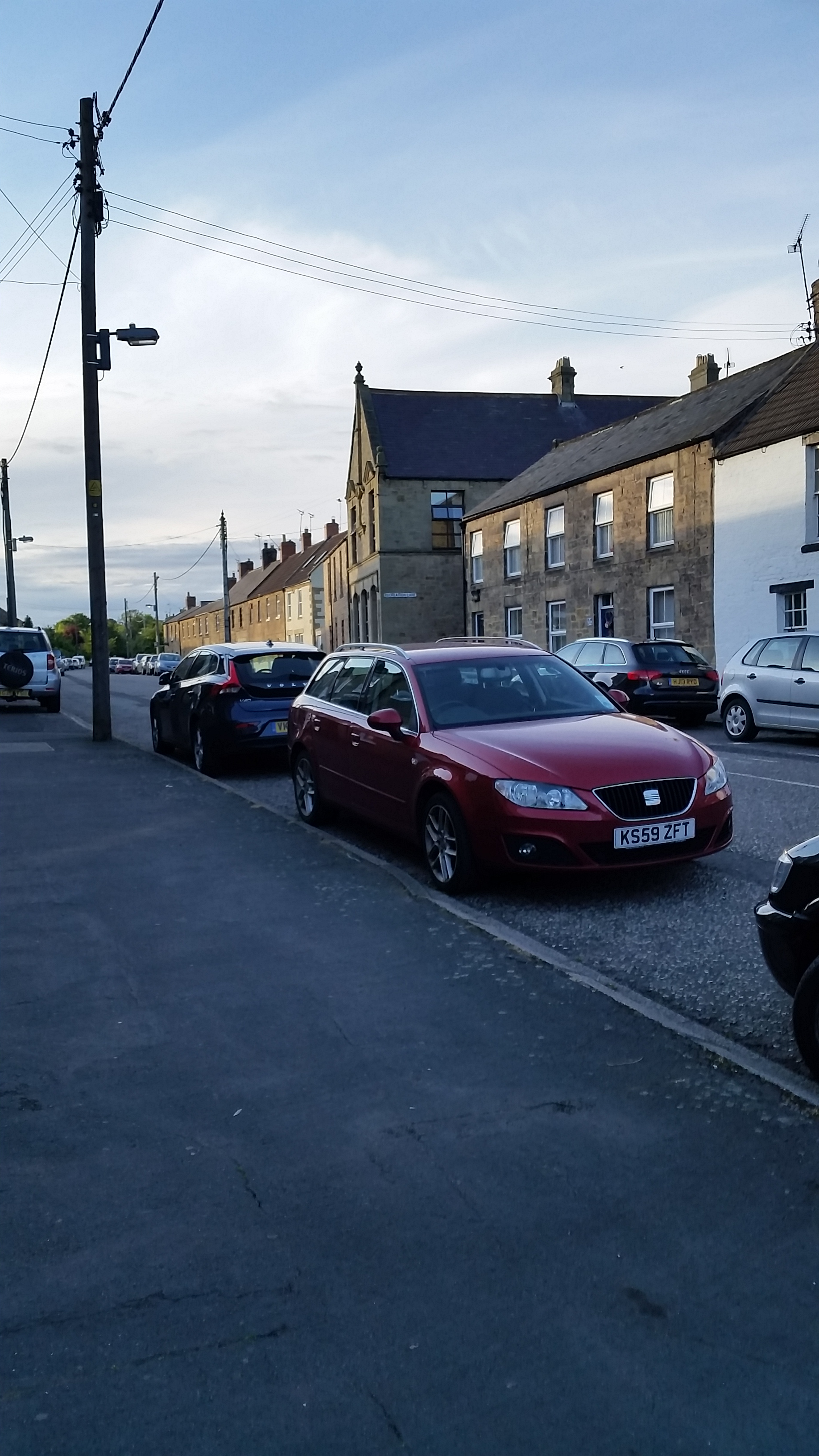 This is the main street in Felton Northumberland in the United Kingdom. The large building in the centre is a renovated bank building.